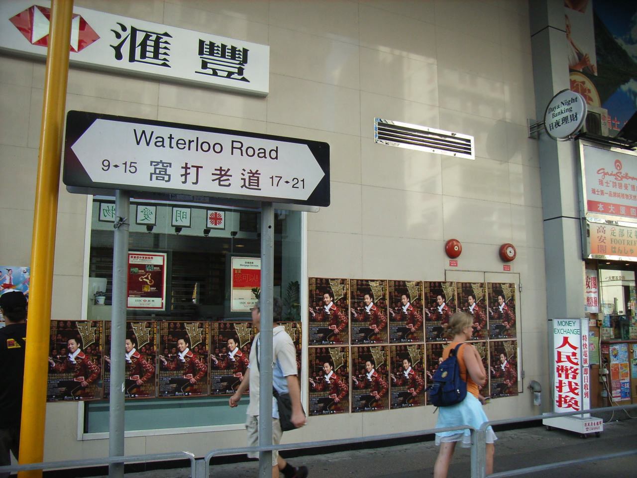 Waterloon Road, Mongkok, Kln